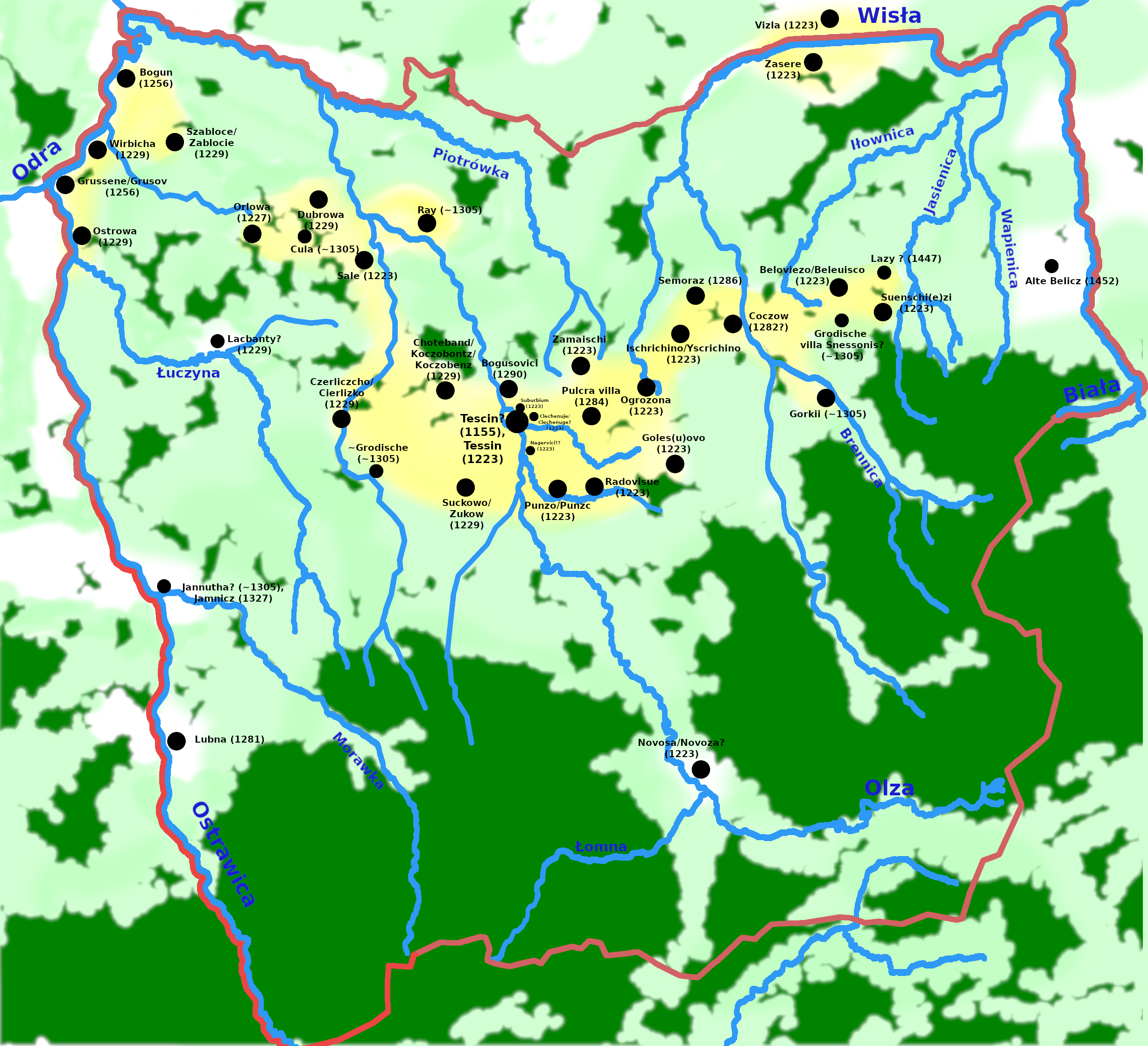 Around 40 settlements in the area of the castellany of Cieszyn up to the creation of the Duchy. The dates of the first mention in brackets.